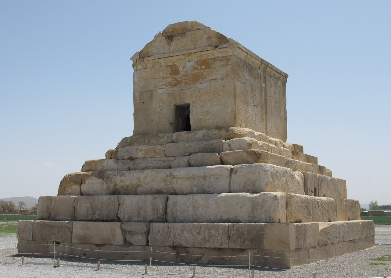 Cyrus tomb in Pasargad